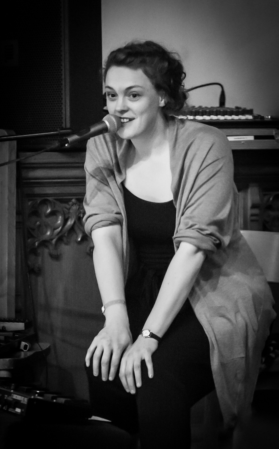 Mari Kvien Brunvoll performs in St. Edmund Church during Oslo Jazzfestival 2015